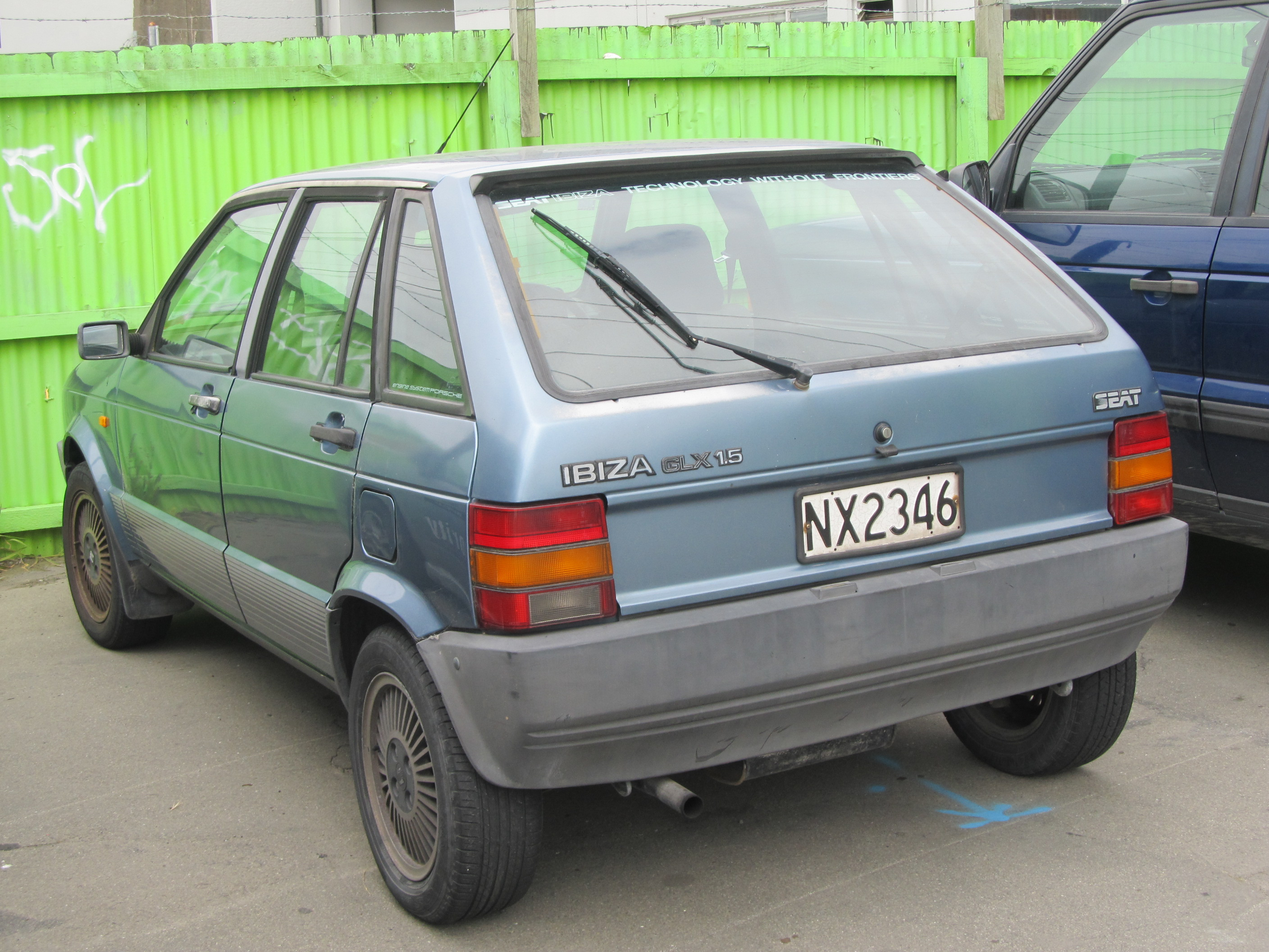 NX2346 This was amazingly original, with what appear to be factory SEAT alloy wheels and the great rear window decal. The Mk1 Ibiza was one of just two SEATs officially sold in New Zealand - the other being the late 1990s Cordoba. Both are rare sights here, but these Ibizas are like gold dust.